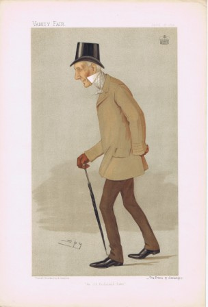 Statesmen No.610: Caricature of The Duke of Somerset. Caption reads: "An old fashioned Duke"